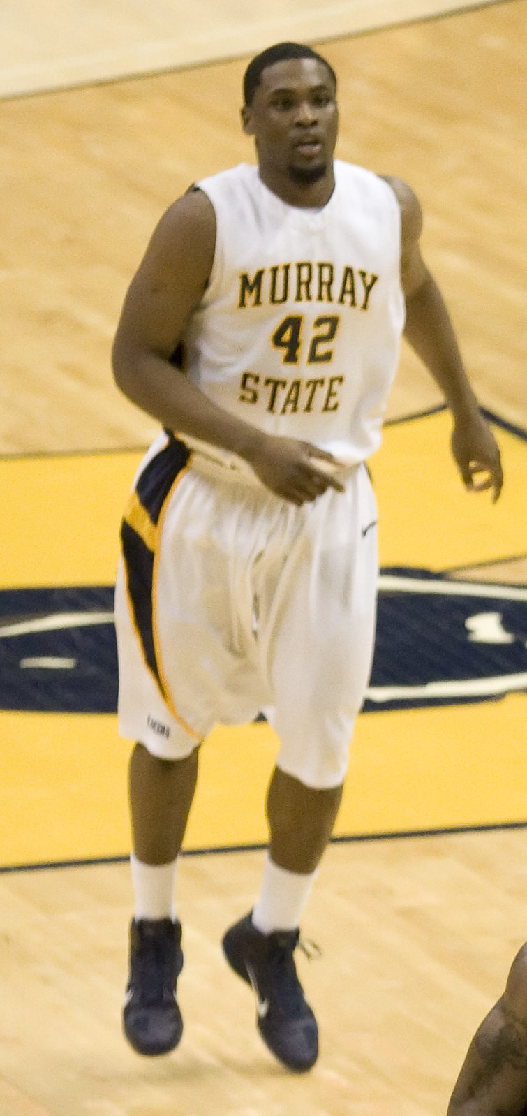 Unidentified Murray State player (foreground, in white), Jeffery McClain (#22 Murray State), Kenneth Faried (behind unidentified player, in black), Demonte Harper (#22; Morehead State), and Ivan Aska (#42; Murray State)